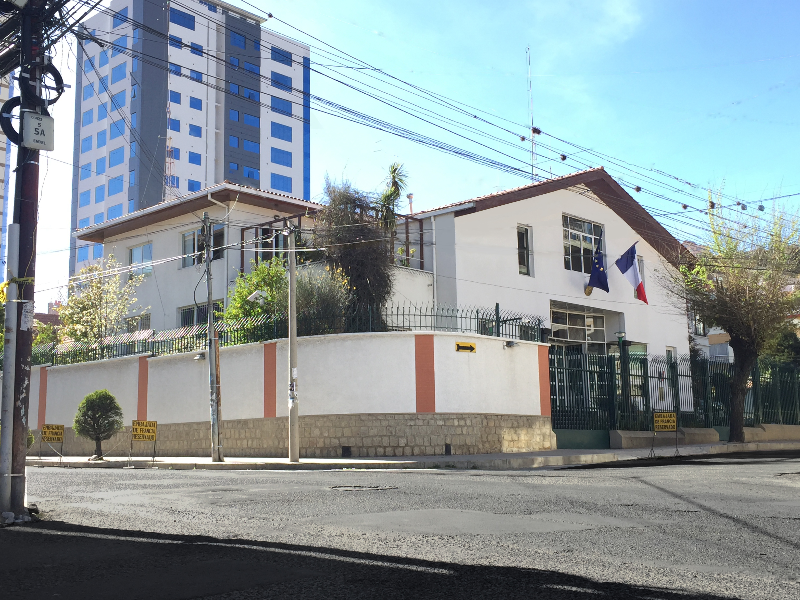 French Embassy in La Paz, Bolivia